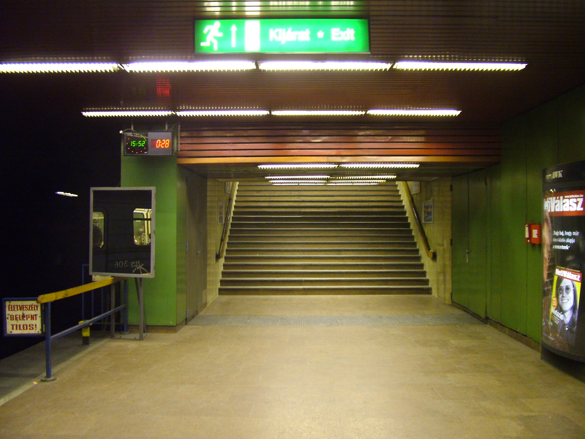 Népliget, Budapest metro